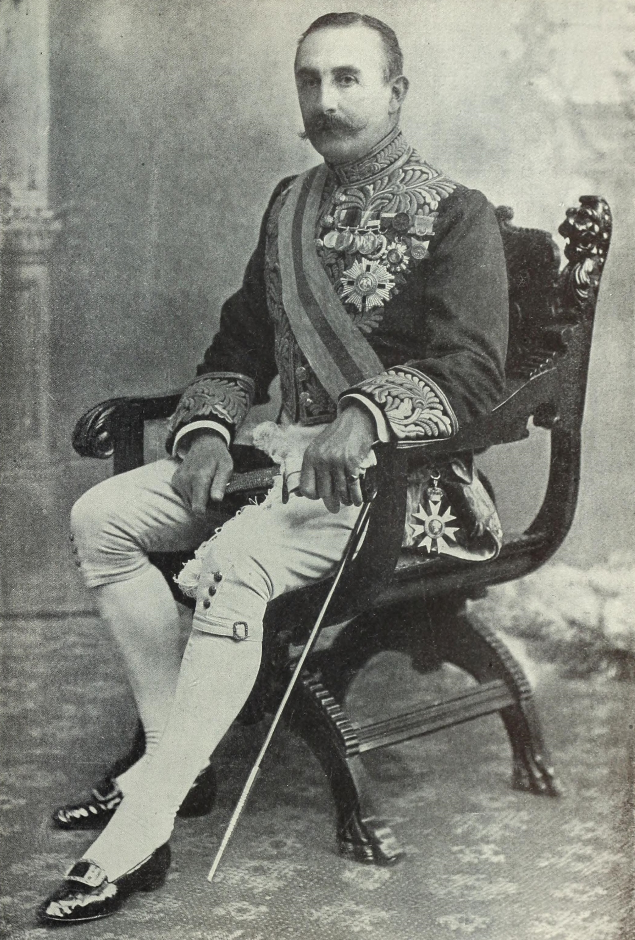 Picture of Gilbert Elliot-Murray-Kynynmound, 4th Earl of Minto